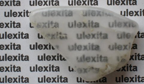 Photograph of mineral ulexite from California, USA, displaying its characteristic optic property. Photographed by Andres Boni.